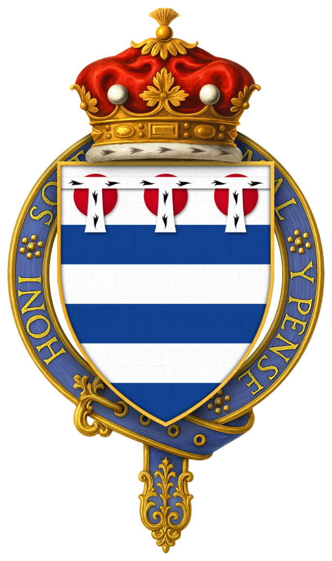 Sir Thomas Grey, 1st Marquess of Dorset, KG BURKE, Sir Bernard, The General Armory of England, Scotland, Ireland, and Wales: Comprising a Registry of Armorial Bearings from the Earliest to the Present Time, London: Harrison & sons, 1884. “ Grey (Lord Grey of Groby, Marquess of Dorset...). Same arms as Grey, of Codnor [Barry of six ar. and az. in chief three torteaux], with a lable of three points ermine. ”